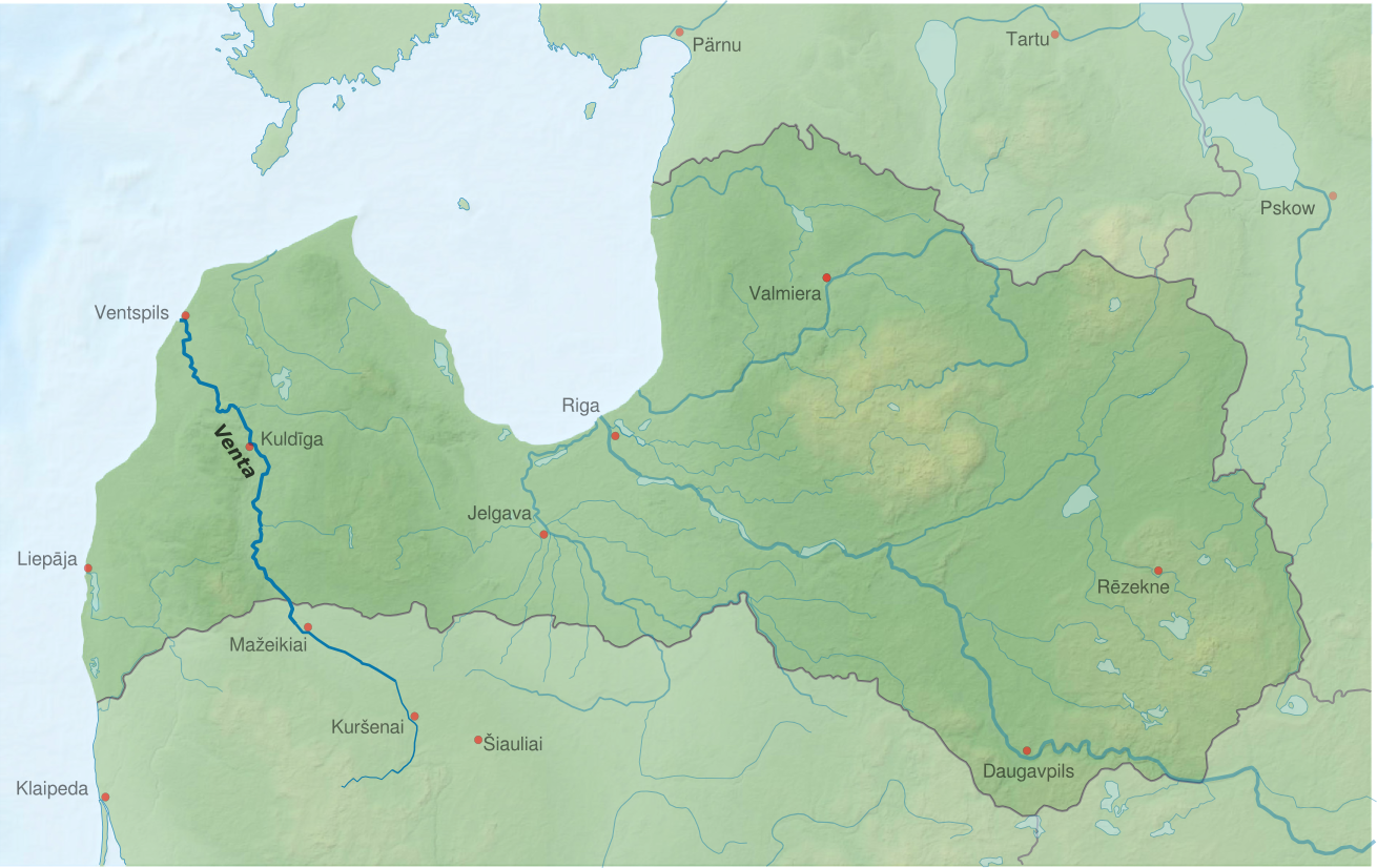 Map of river Pededze in Latvia and Estonia based on relief-location maps by users: NNW, Виктор В, Alexrk2, Chumwa, Karlis